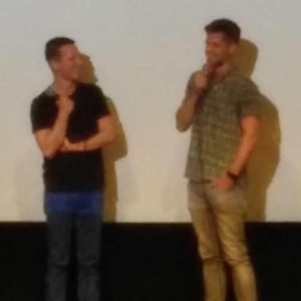 Justin Kelly and Charlie Carver at a Q&A session for I Am Michael at the Directors Guild of America in Los Angeles, California, United States